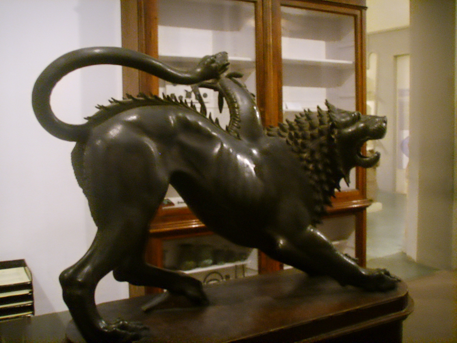 The so called "'Chimera of Arezzo" is an Etruscan bronze statue of the mythological monster chimera, on display in the Archaeological museum in Florence, Italy.